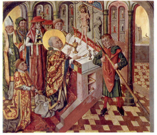 Bernt Notke: Mass of Saint Gregory, from the High Altar of Århus Domkirke Cathedral